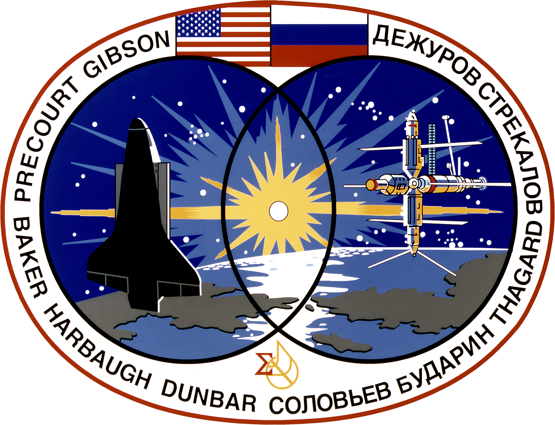 STS-71 Mission Insignia The STS-71 crew patch design depicts the orbiter Atlantis in the process of the first international docking mission of the Space Shuttle Atlantis with the Russian Space Station Mir. The names of the 10 astronauts and cosmonauts who flew aboard the orbiter are shown along the outer border of the patch. The rising sun symbolizes the dawn of a new era of cooperation between the two countries. The vehicles Atlantis and Mir are shown in separate circles converging at the center of the emblem symbolizing the merger of the space programs of the two space faring nations. The flags of the United States and Russia emphasize the equal partnership of the mission. The joint program symbol at the lower center of the patch acknowledges the extensive contributions made by the Mission Control Centers (MCC) of both countries. The crew insignia was designed by aviation and space artist, Bob McCall, who also designed the crew patch for the Apollo Soyuz Test Project (ASTP) in 1975, the first international space docking mission.